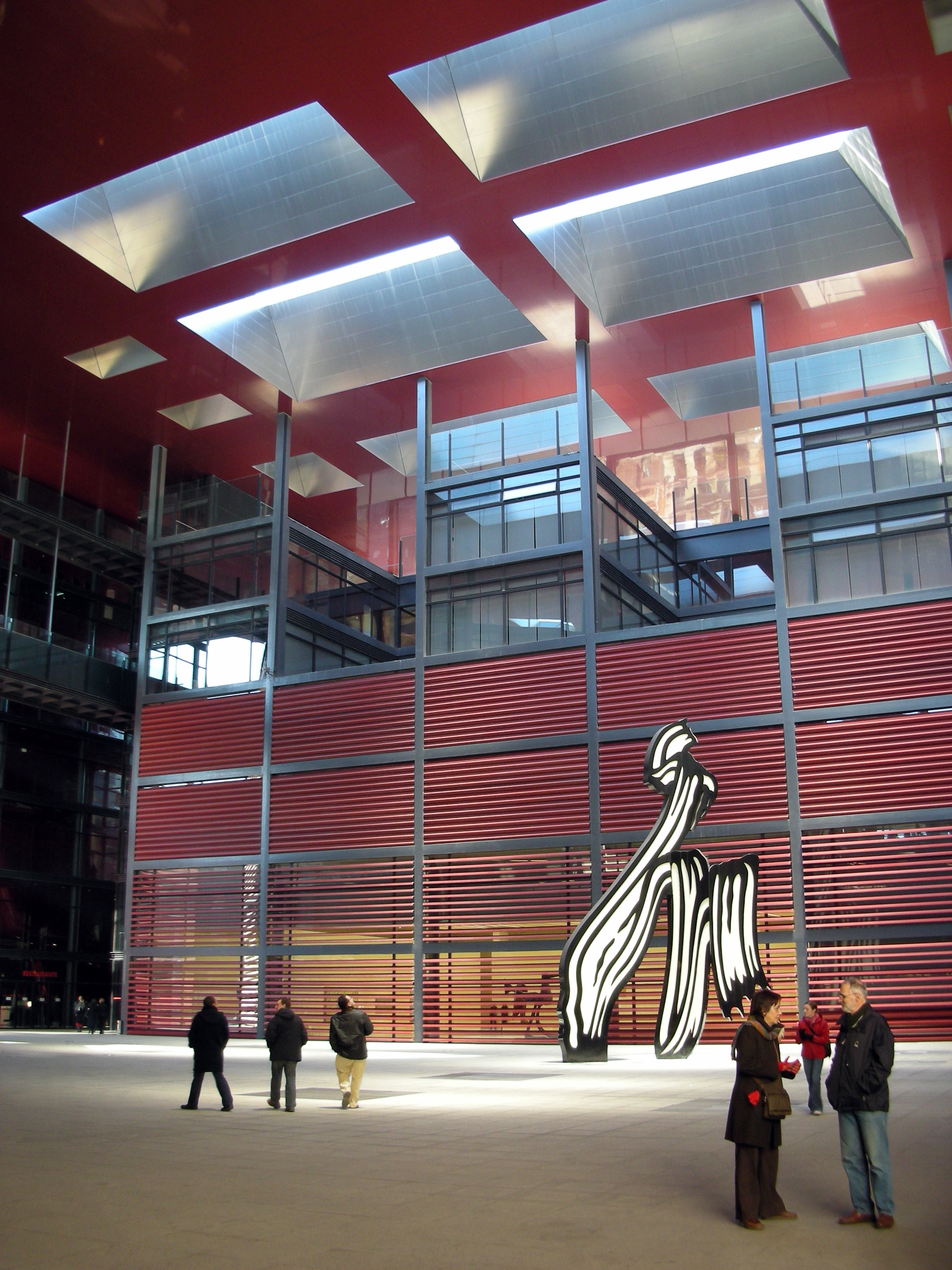 sculpture Roy Lichtenstein in Patio Reina Sofia Madrid/Spain